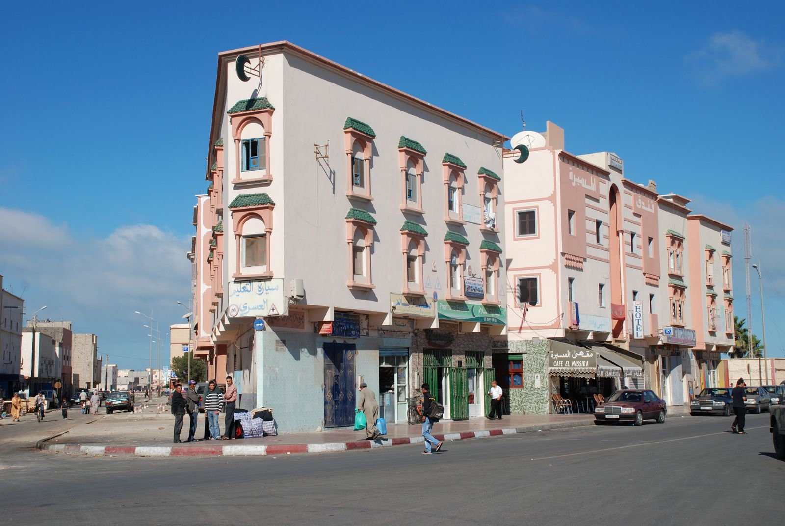 Town Center — Dakhla, Western Sahara